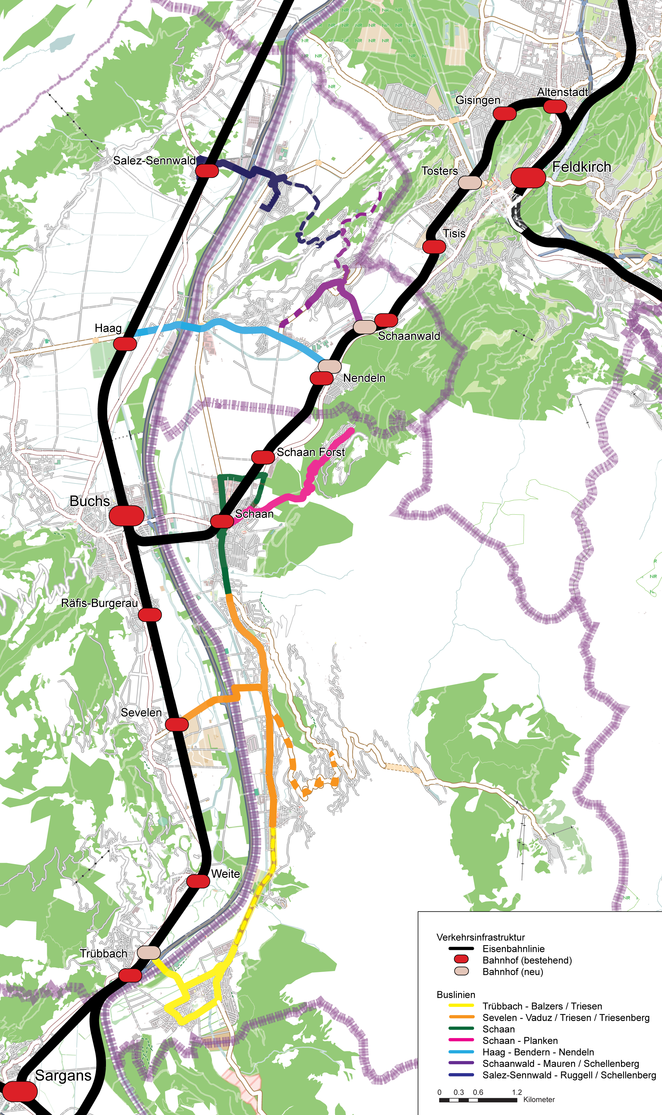 Map for railwayproject S-Bahn (Liechtenstein, Austria, Switzerland) with possibilities for bus connections.